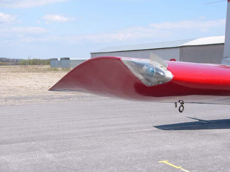 The wingtip of an American Aviation AA-1 Yankee showing its Hoerner design